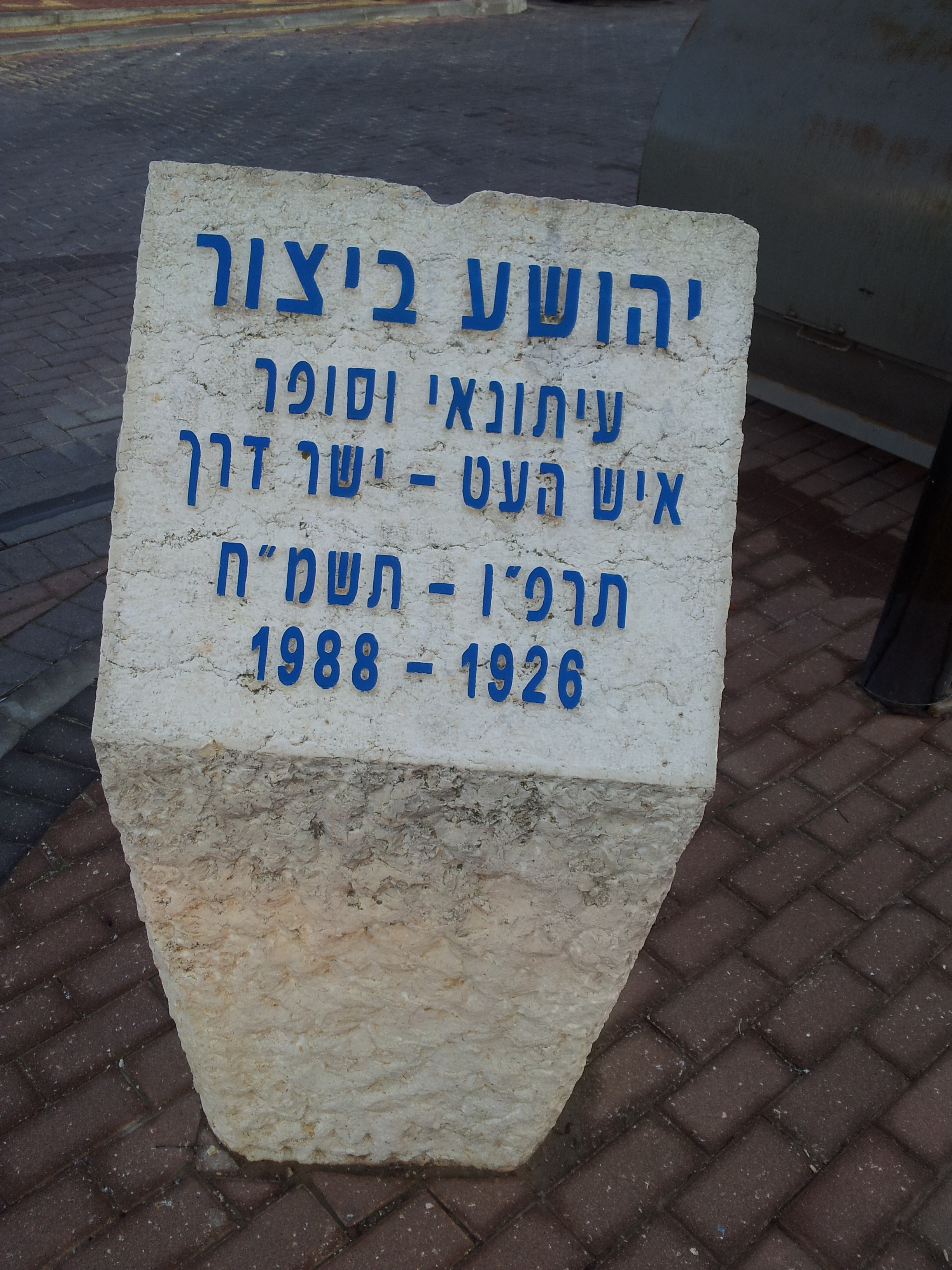 YehoshuaBitzur St sign Jerusalem